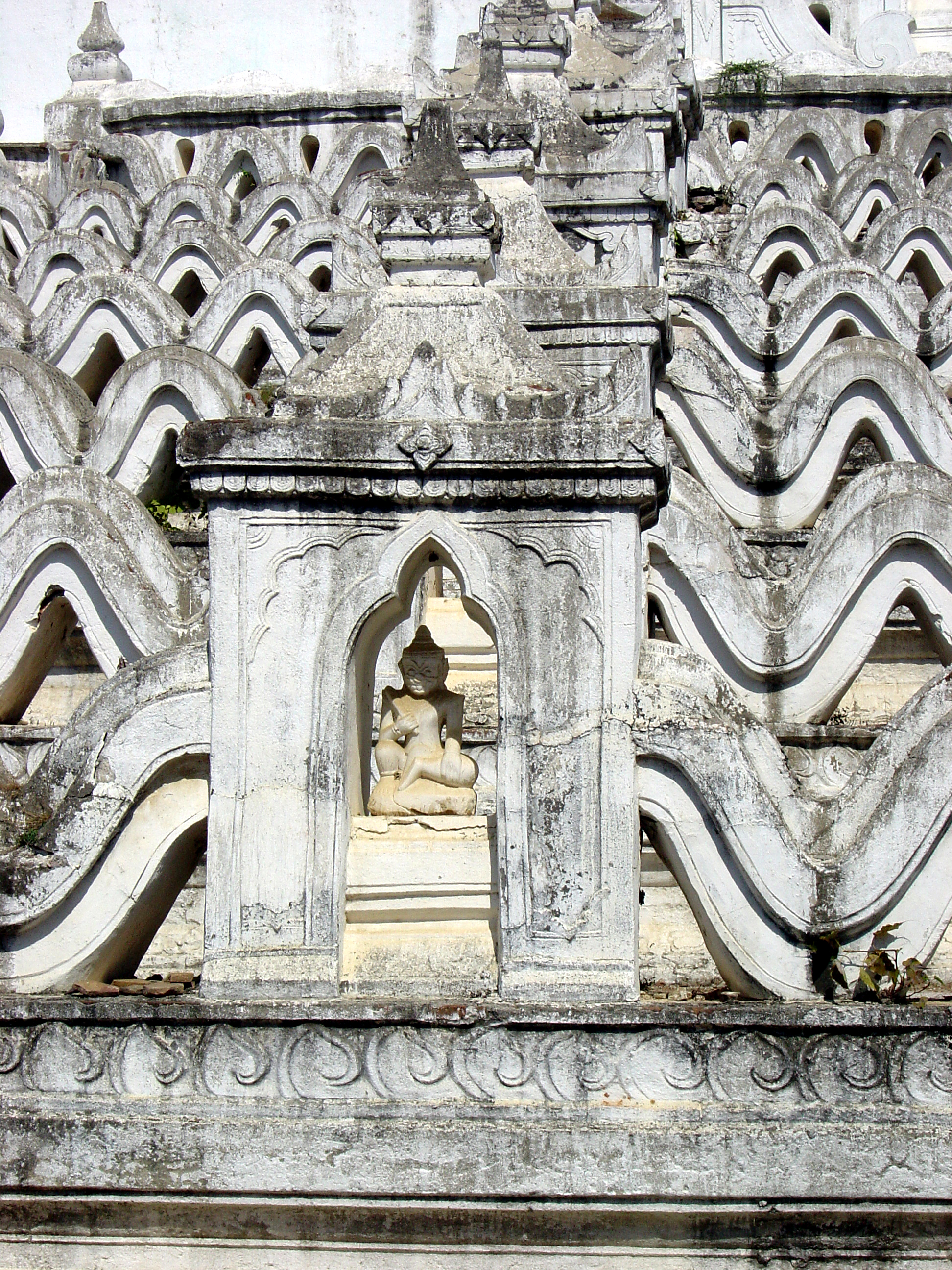 Shinbyumei was built by King Bagyidaw (the successor of Bodawpaya) as a representation of Mount Meru, home of the gods, with its seven mountain ranges located on an island in the middle of the water. Here, the water is depicted literally, with a small Buddha statue enshrined amidst the "waves."